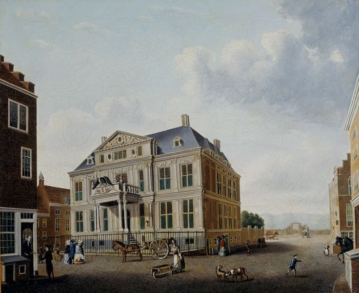 Schielandshuis in Rotterdam, The Netherlands